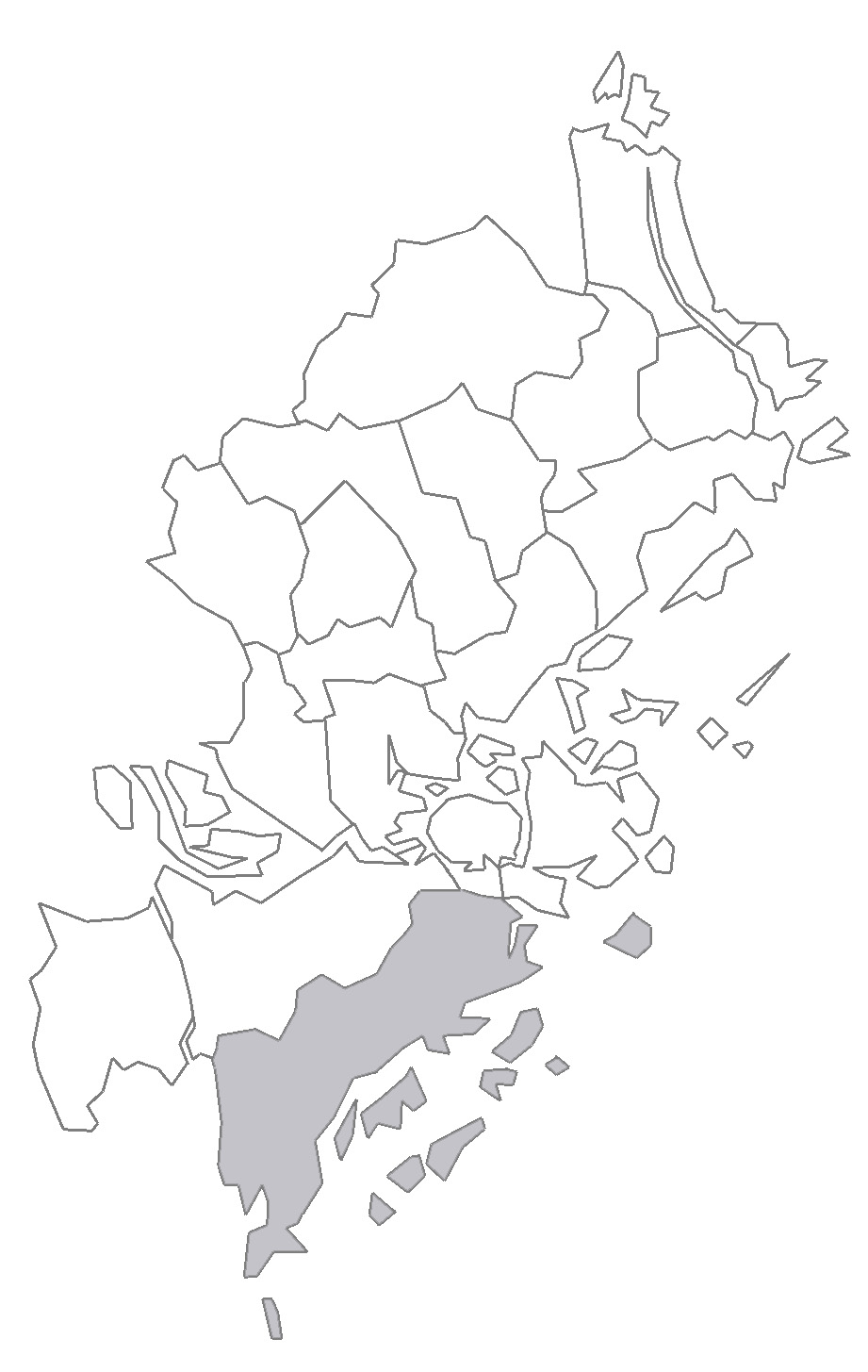 Map describing the location of Sotholm Hundred in Stockholm County, Sweden.